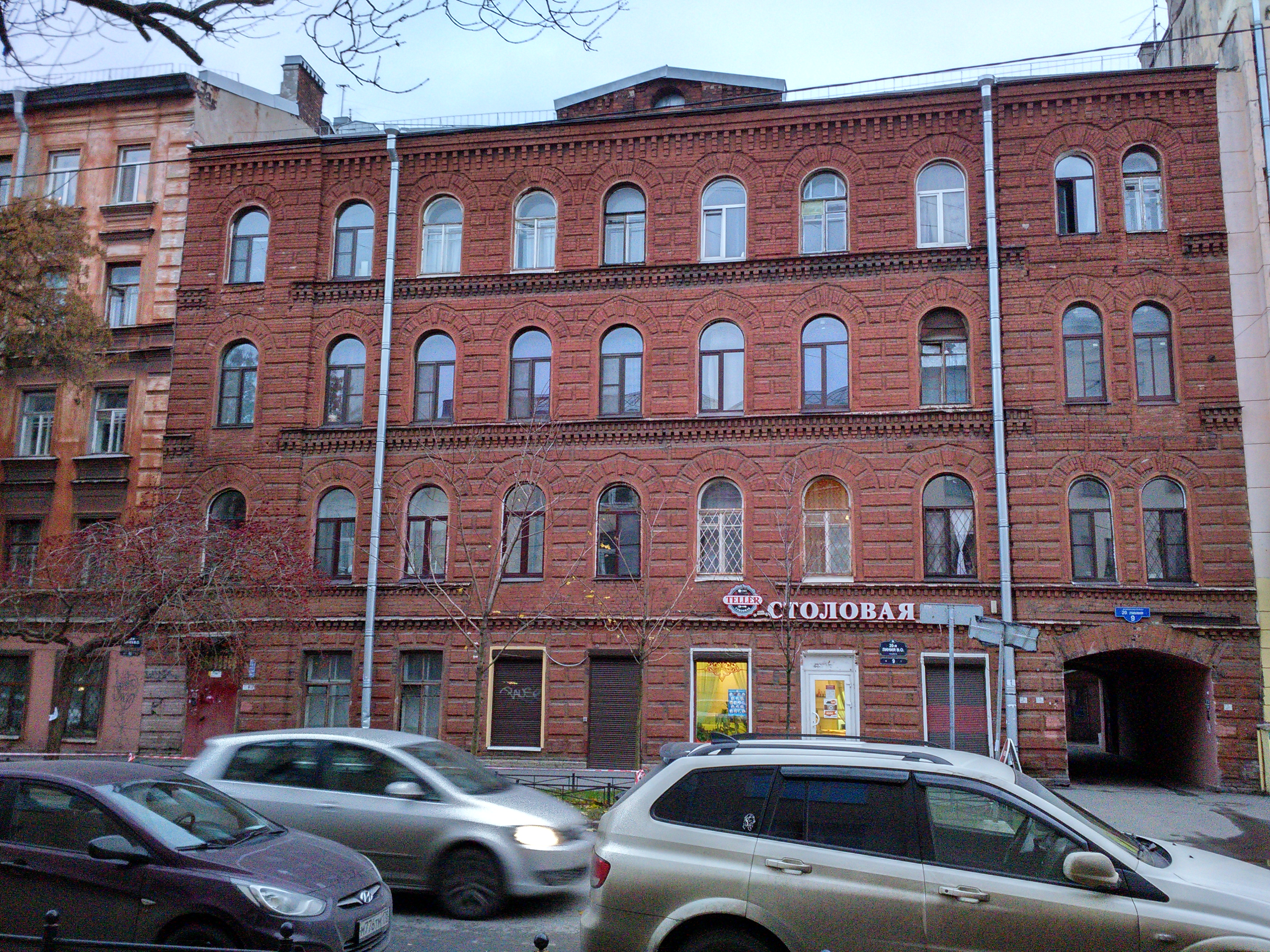 House number 9 on Line 20 of Vasilyevsky Island in St. Petersburg (Russia), in which at the end of the 19th century the telephone factory of LM Ericsson was located.